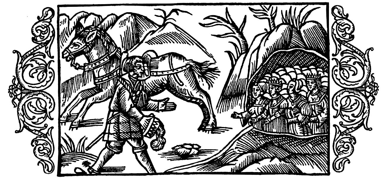 A king (Höder) is visiting a cave where Maids of the Woods are living. They are powerful and he wants their support. Two of the maids are crowned.